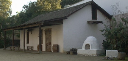 Peralta Adobe